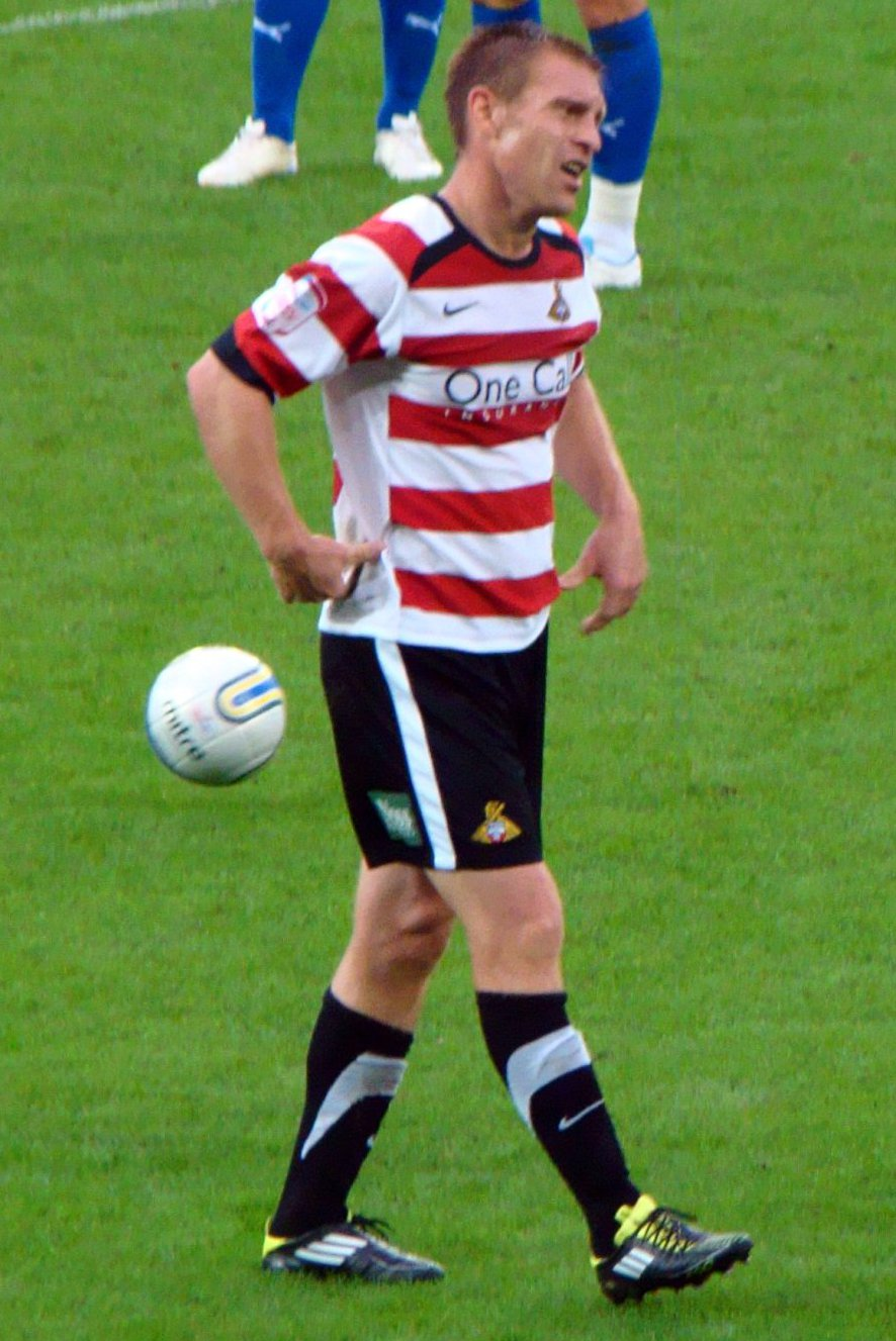 10/09/11 Cardiff V Doncaster, Championship, Cardiff City Stadium, Cardiff, Wales